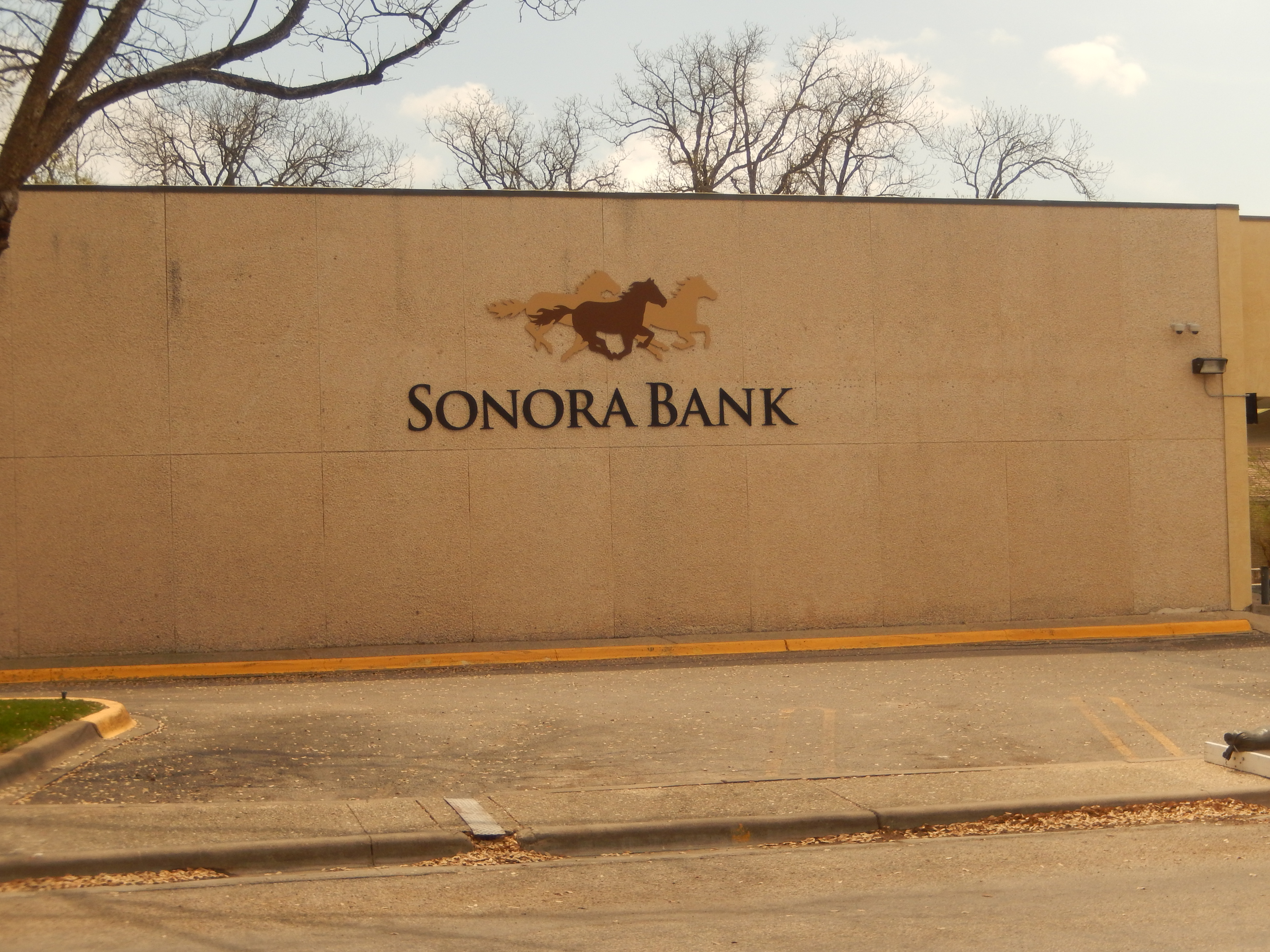 I took photo with Nikon camera of Sonora Bank in Sonora, TX.